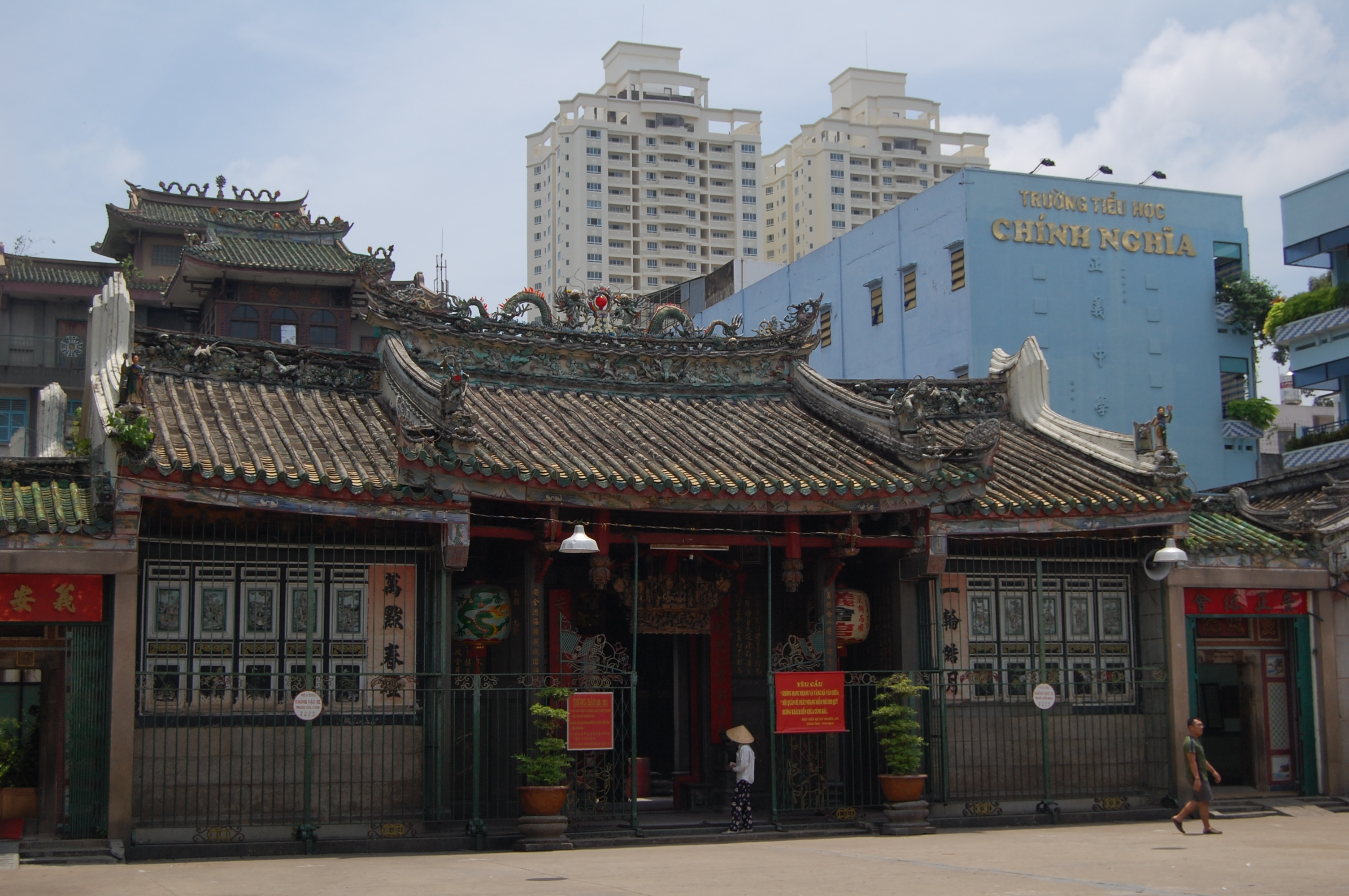 What I really like about these big Asian cities is how the past and the present just seem to mix so well.